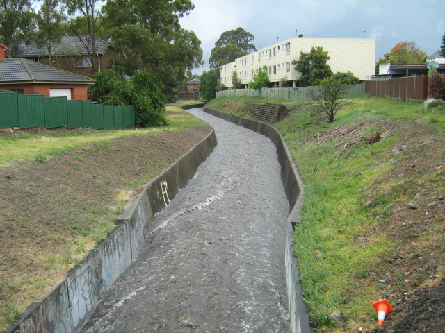 Iron Cove Creek looking downstream from the John St bridge after a thunderstorm. Taken: October 12, 2007.